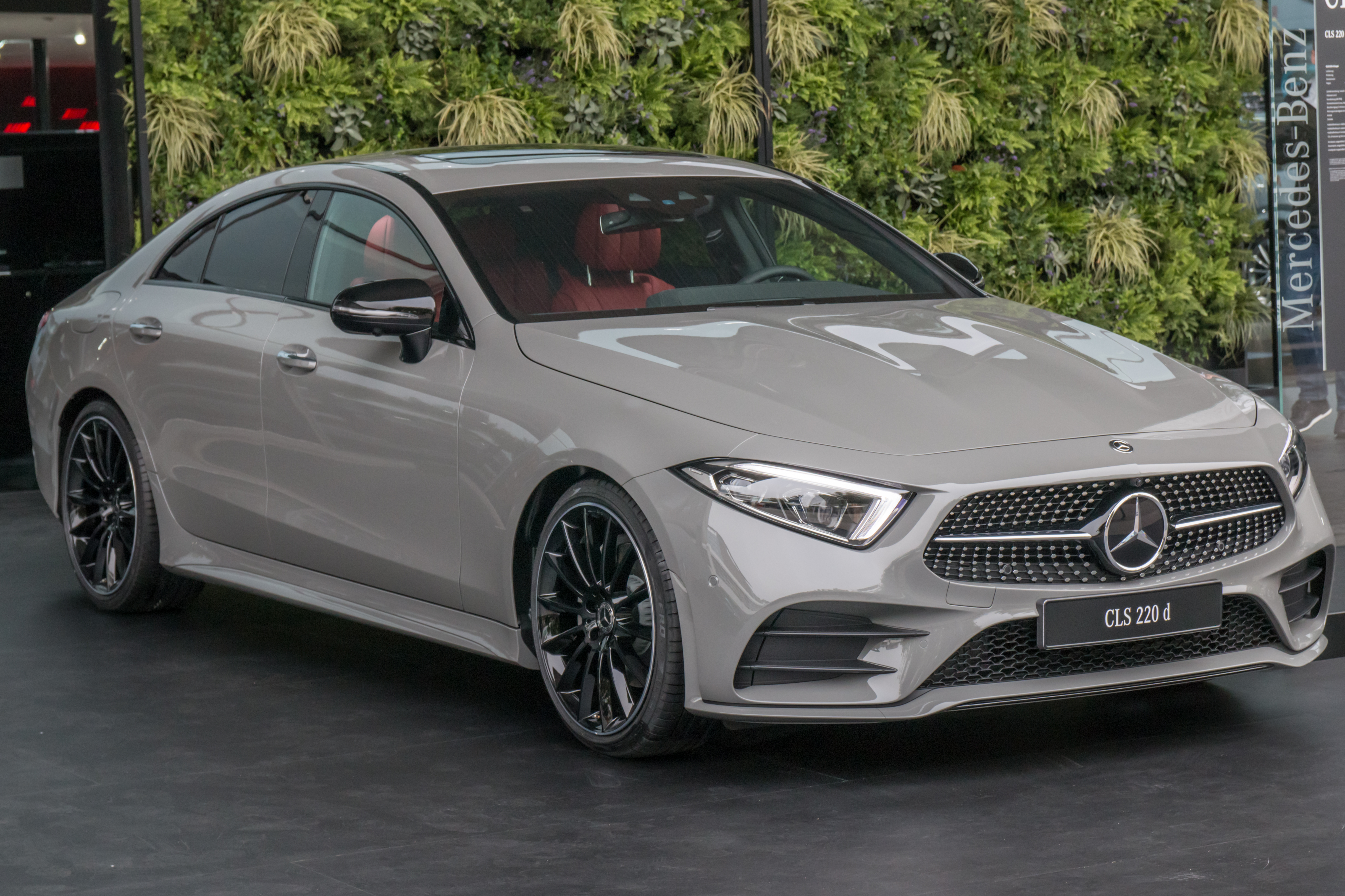 Mercedes-Benz C 257 CSL220